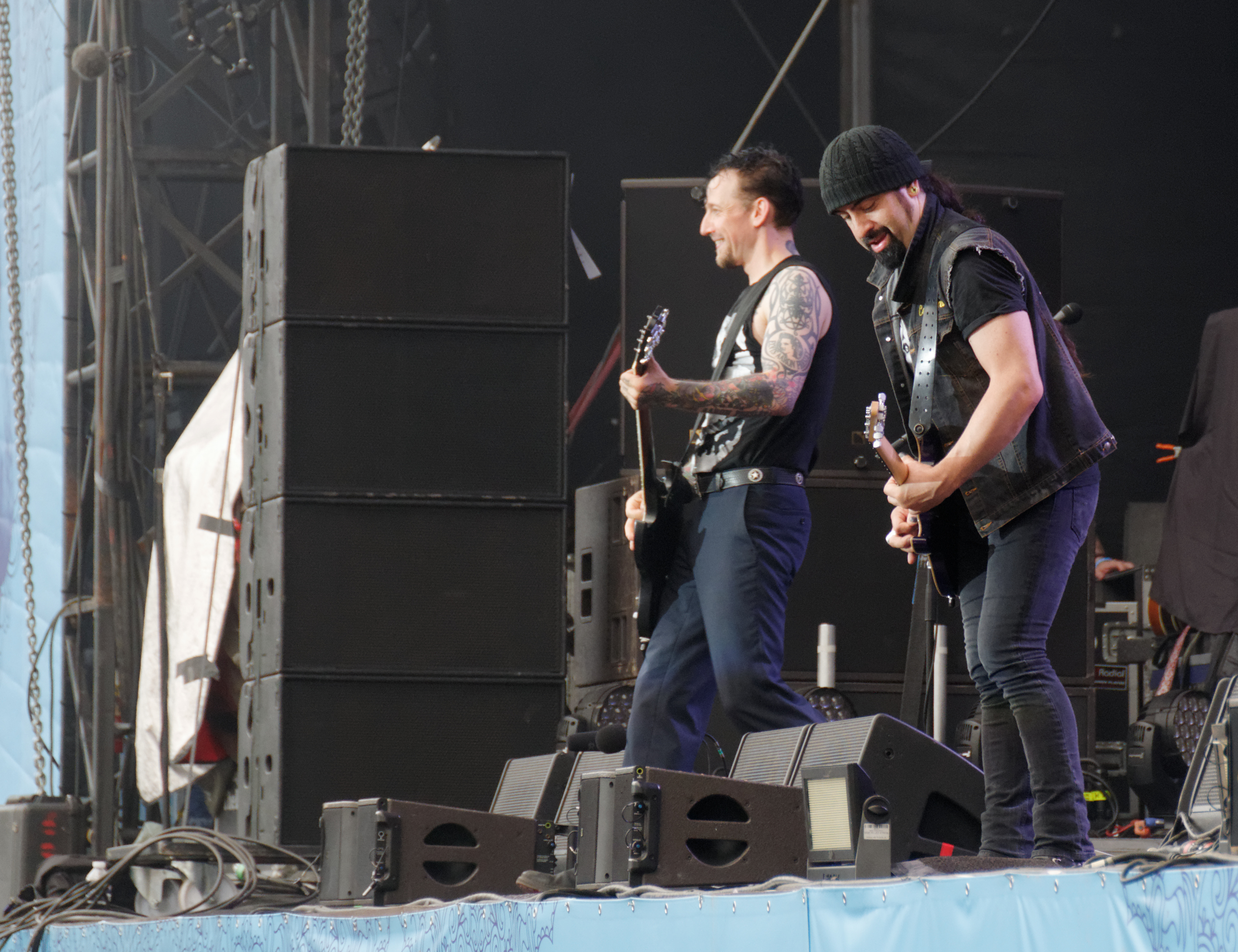 Personality rights warningAlthough this work is freely licensed or in the public domain, the person(s) shown may have rights that legally restrict certain re-uses unless those depicted consent to such uses. In these cases, a model release or other evidence of consent could protect you from infringement claims.